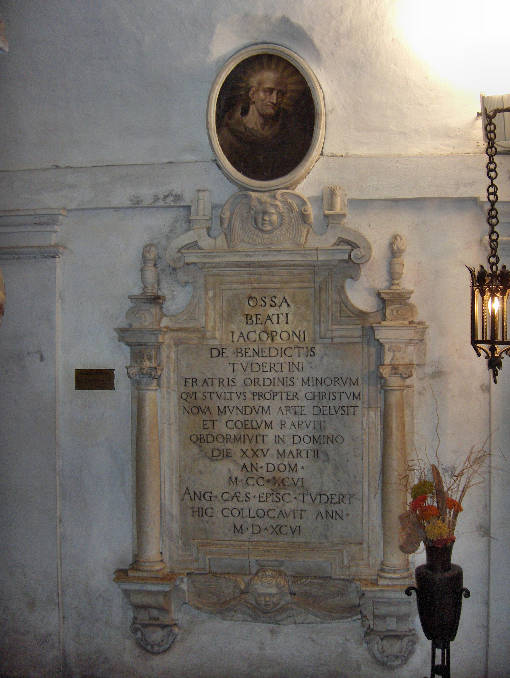 Carved stone with the remains of the poet and Franciscan Jacopone da Todi (who died in 1306); in the crypt of the church of San Fortunato; Todi, Umbria, Italy